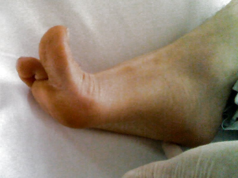 Babinski's Sign on right foot